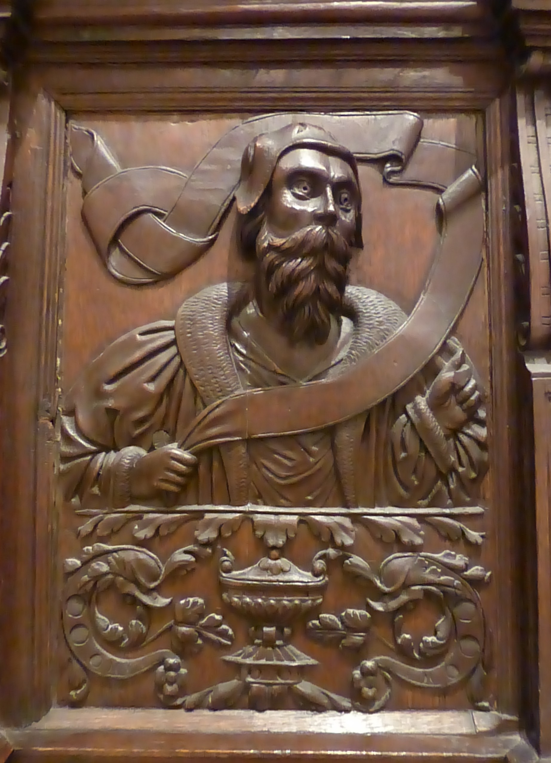 One of four figures on a screen bearing the arms of John Cathcart of Killochan and his wife Helen Reid with the date 1606. The figures date from the middle of the 16th century and may represent members of the family. They are exhibited in the National Museum of Scotland.